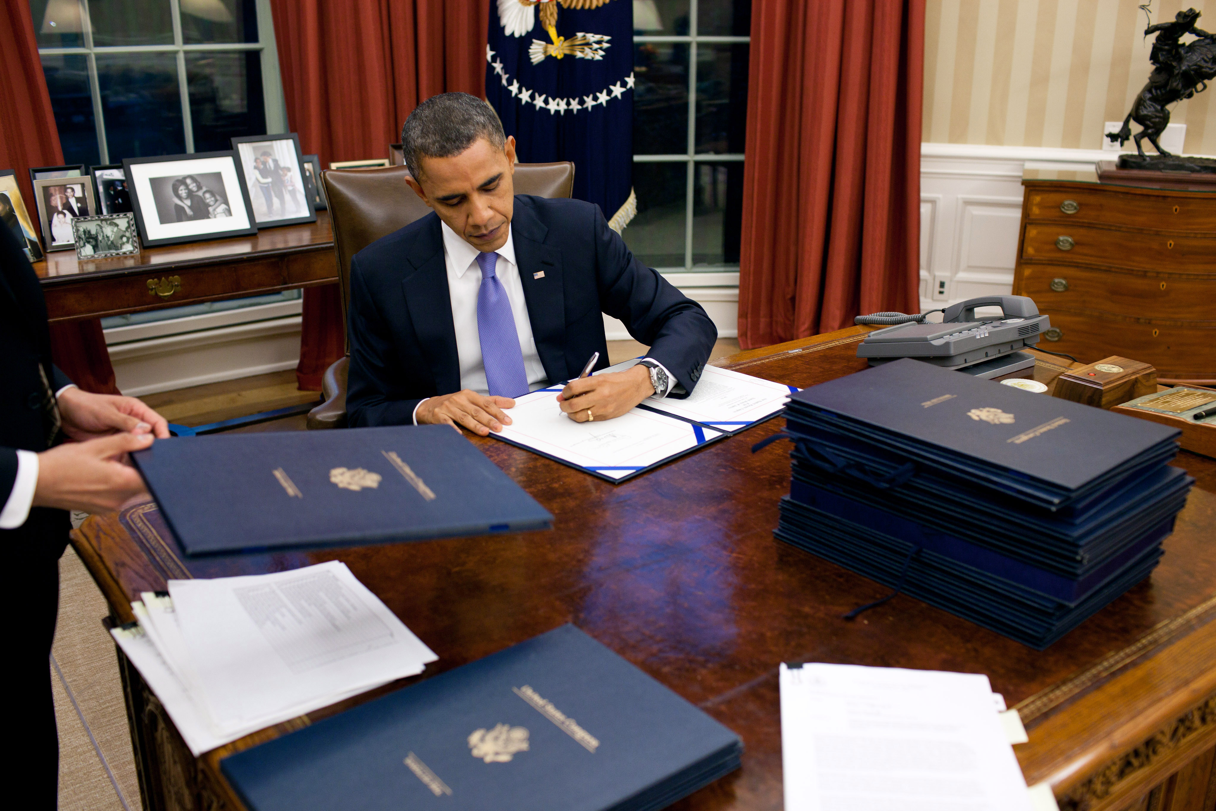 President Barack Obama signs legislation in the Oval Office, Dec. 22, 2010. (Official White House Photo by Pete Souza)